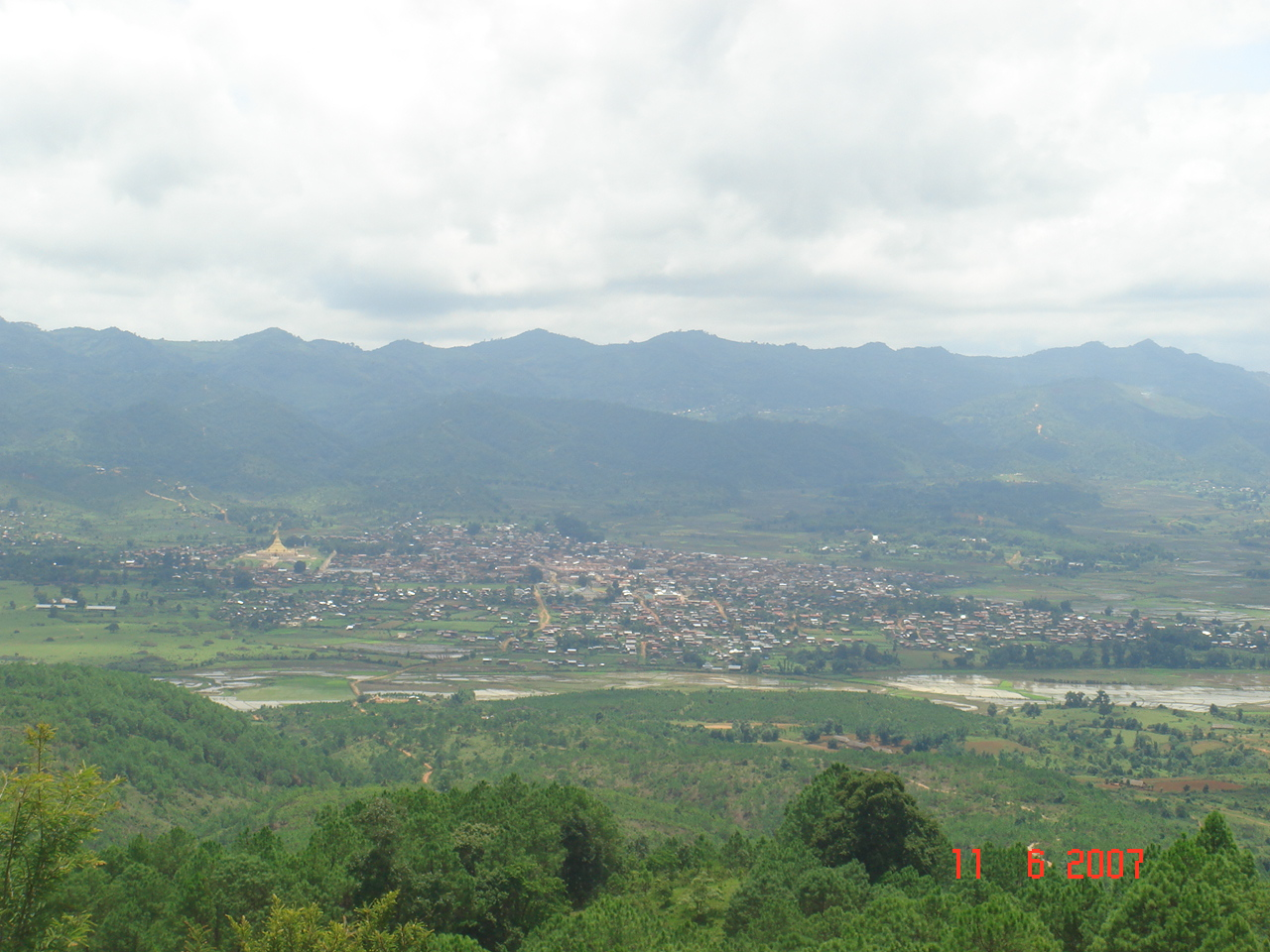 ဝဵင်းပၢင်လူင် ဢမ်ႇၼၼ် ဝဵင်းၼၢင်းၵိၼ်ပူ ဢမ်ႇၼၼ် ဝဵင်းသဝ်ႁိၼ်